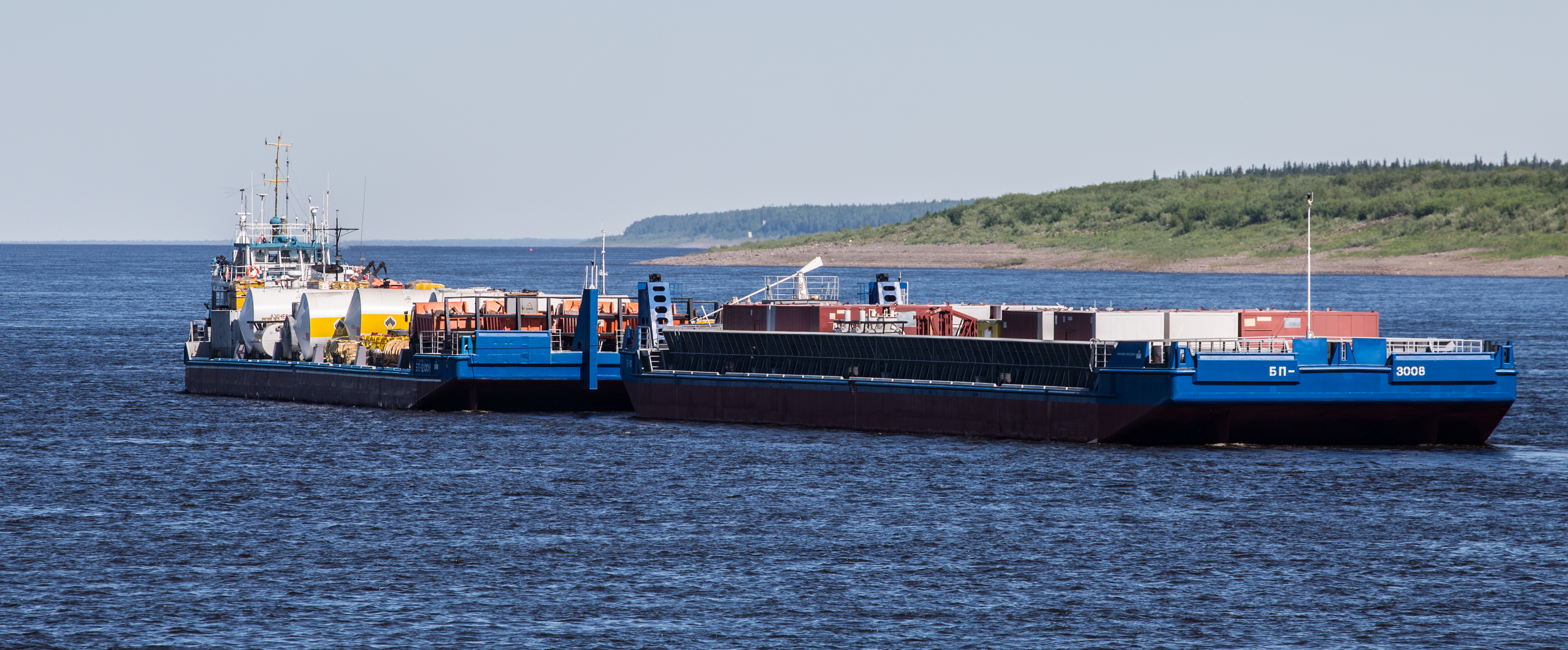 Yenisei River Transport